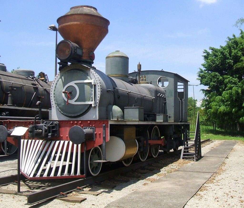 Steam locomotive "Dübs" (1888), made in England. Museu da Tecnologia de São Paulo collection. São Paulo, Brasil.